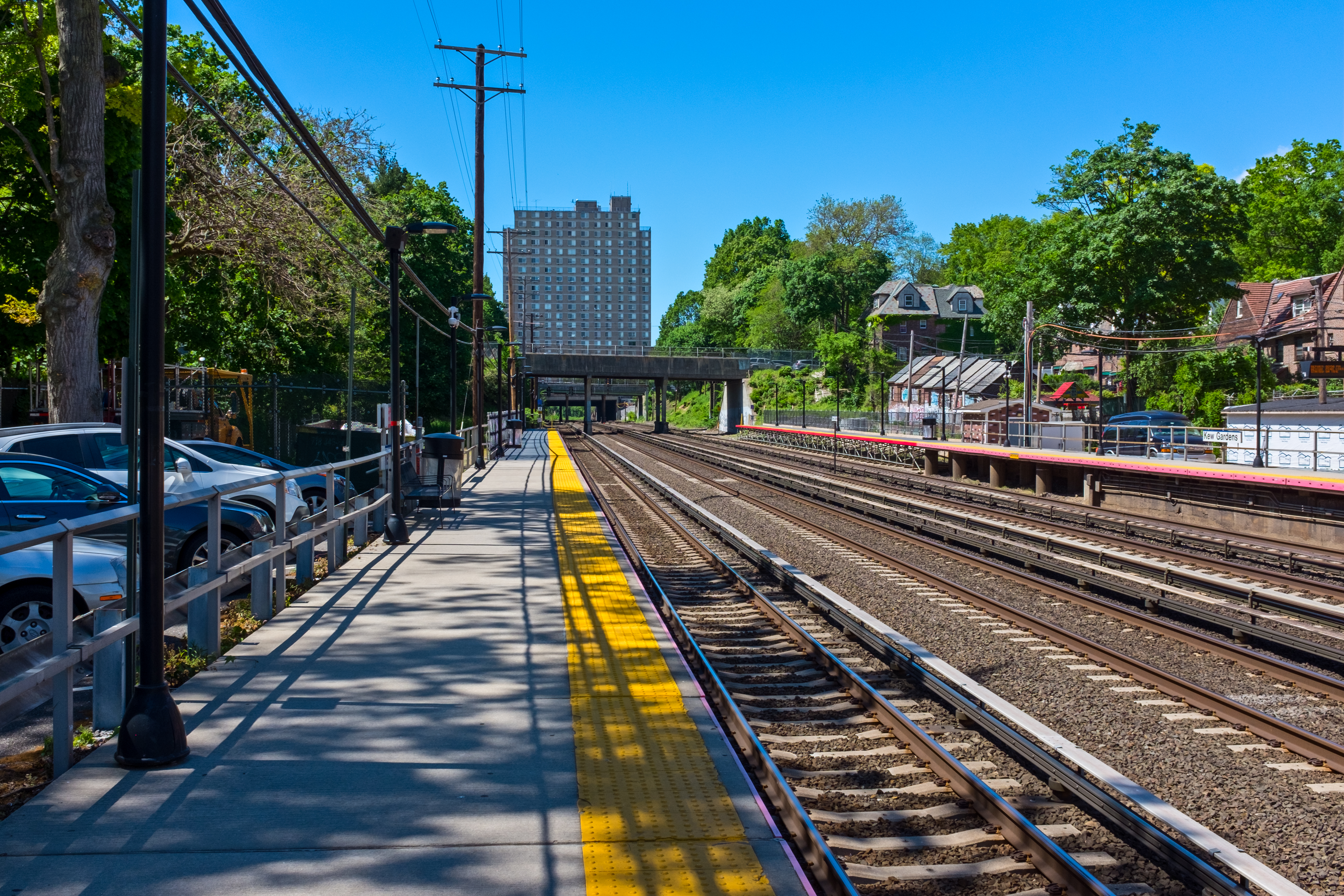 Kew Gardens LIRR station, looking west towards NYC along main line